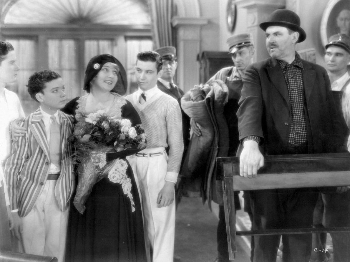 Photo of a scene from the film Courage. Pictured are Belle Bennett and Richard Tucker (dark hat, facing left).